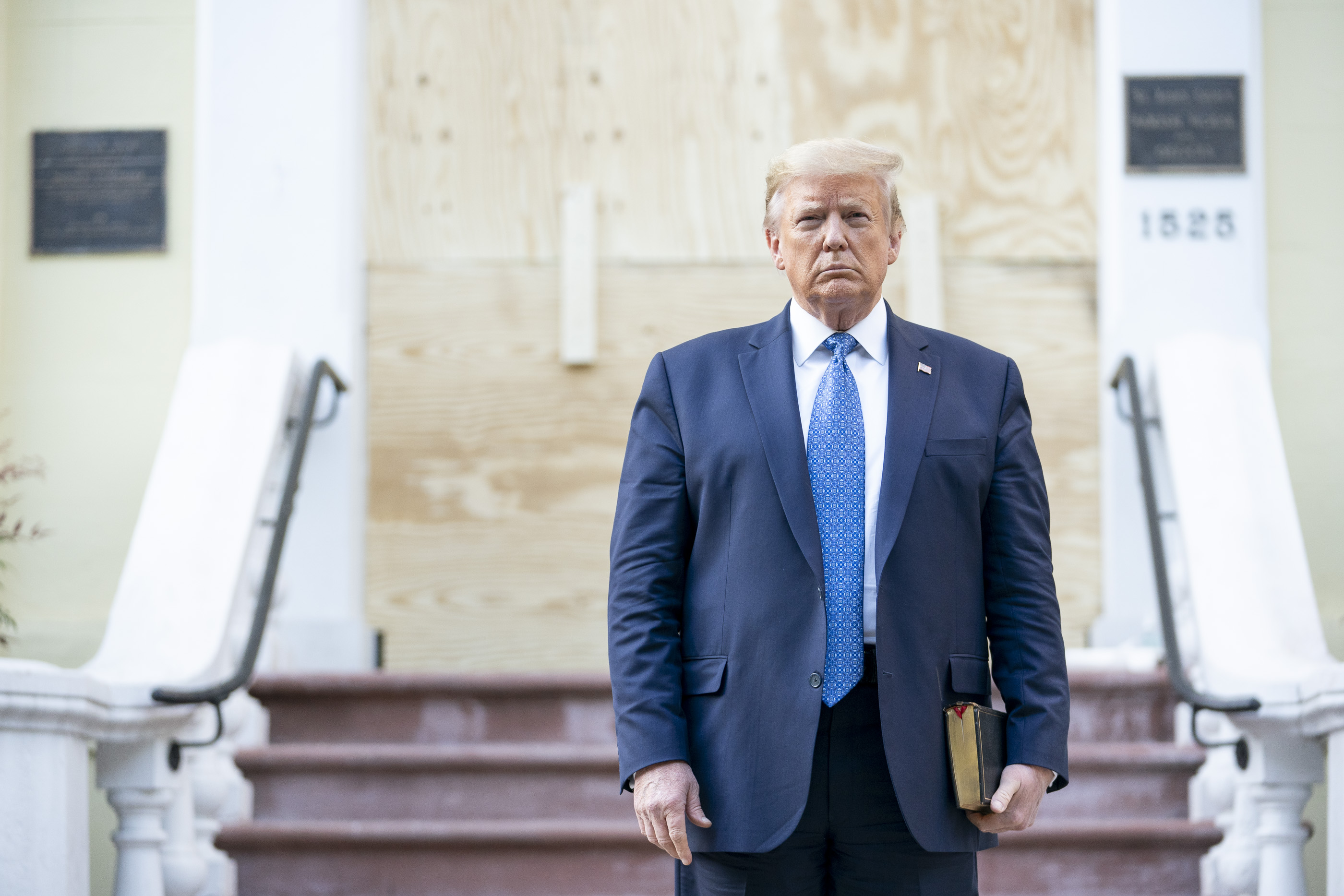 President Donald J. Trump walks from the White House Monday evening, June 1, 2020, to St. John’s Episcopal Church, known as the church of Presidents’s, that was damaged by fire during demonstrations in nearby LaFayette Square Sunday evening. (Official White House Photo by Shealah Craighead) The photograph shows Trump at the entrance to Ashburton House, also known as St. John's Church Parish House, at 1525 H Street NW, on Lafayette Square in Washington, D.C.